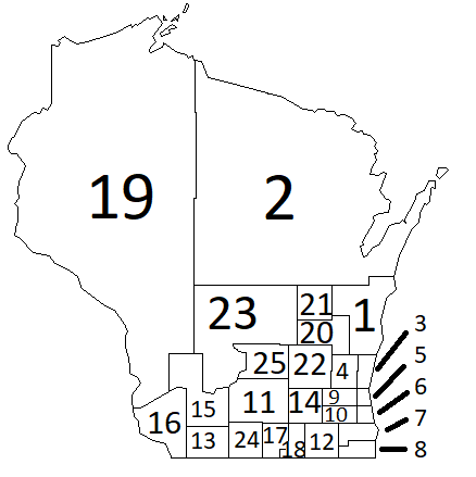 Wisconsin Senate Districts as drawn by 1852 Wisconsin Act 499 In effect for elections from 1852 through 1855.